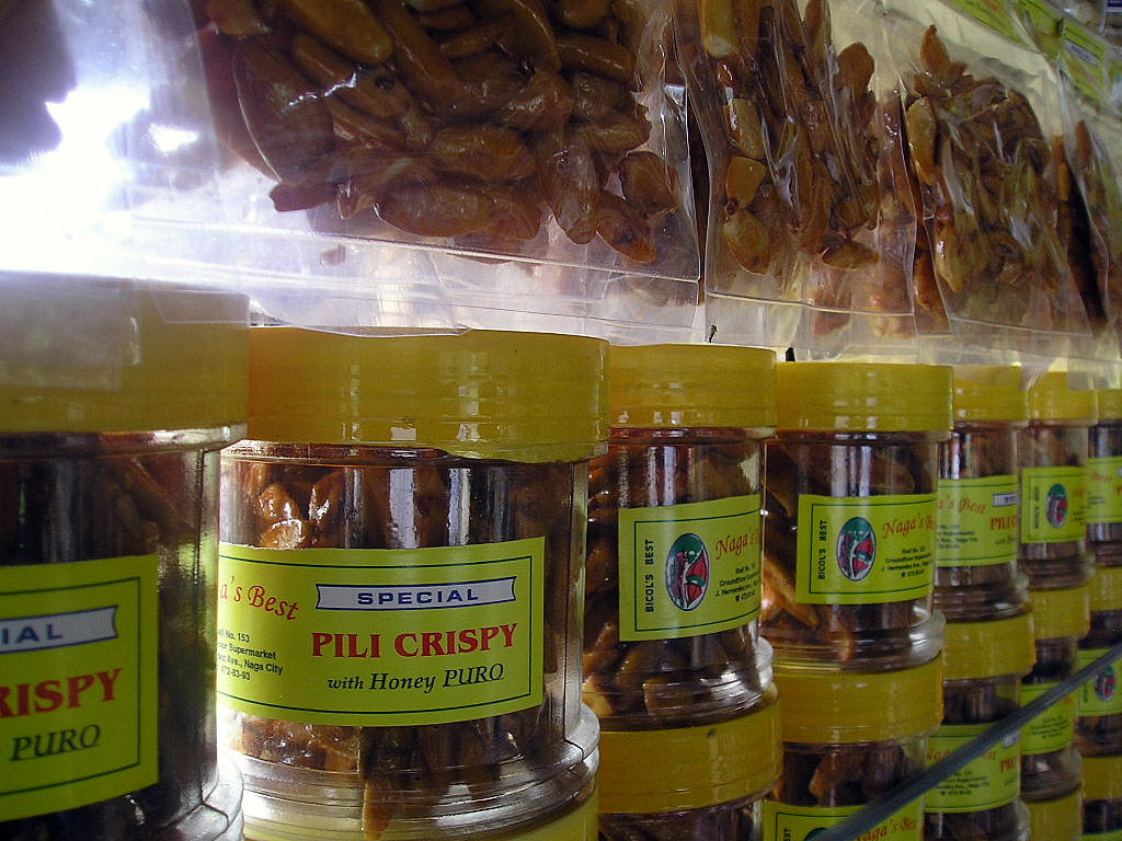 Olympus Camedia (SAKAHAN Southern Luzon Cluster Consultative Meetings, March 2007). Slightly improved with Picasa.